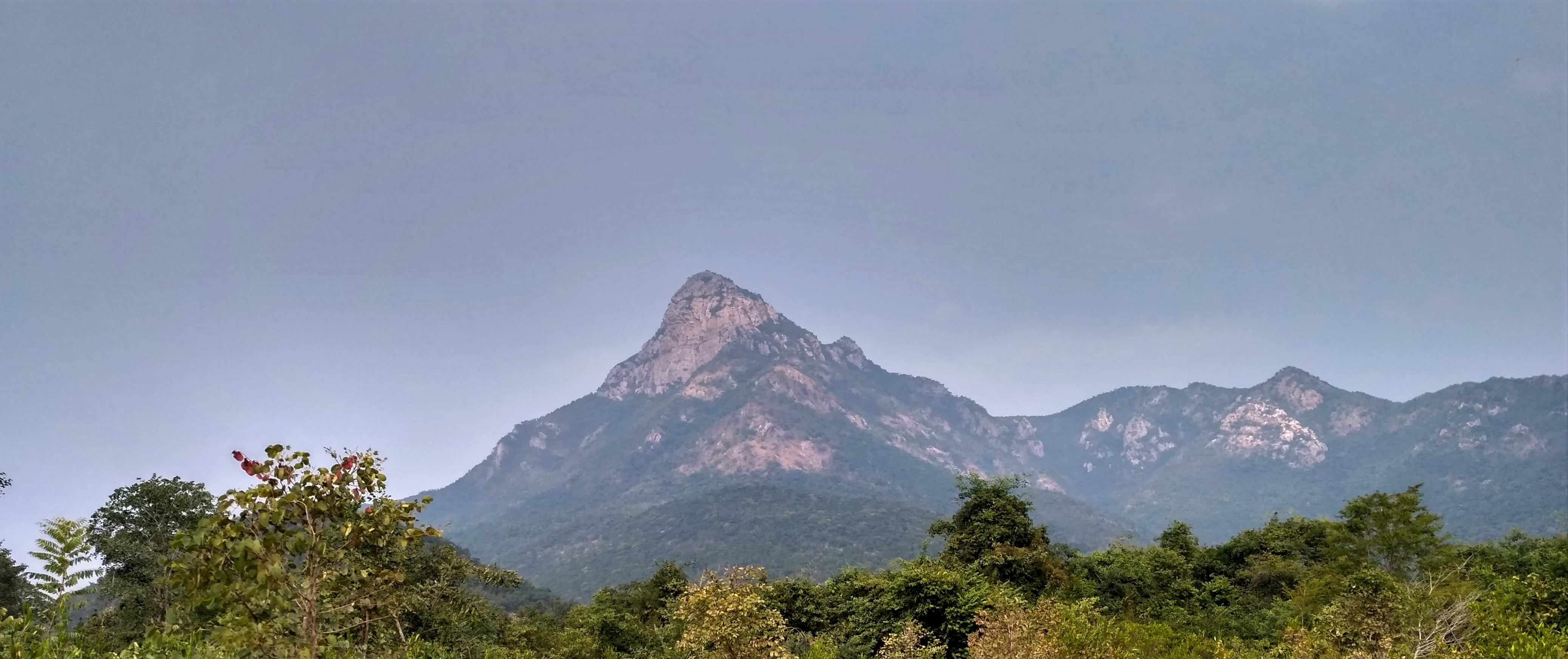 View of Peak from the trek